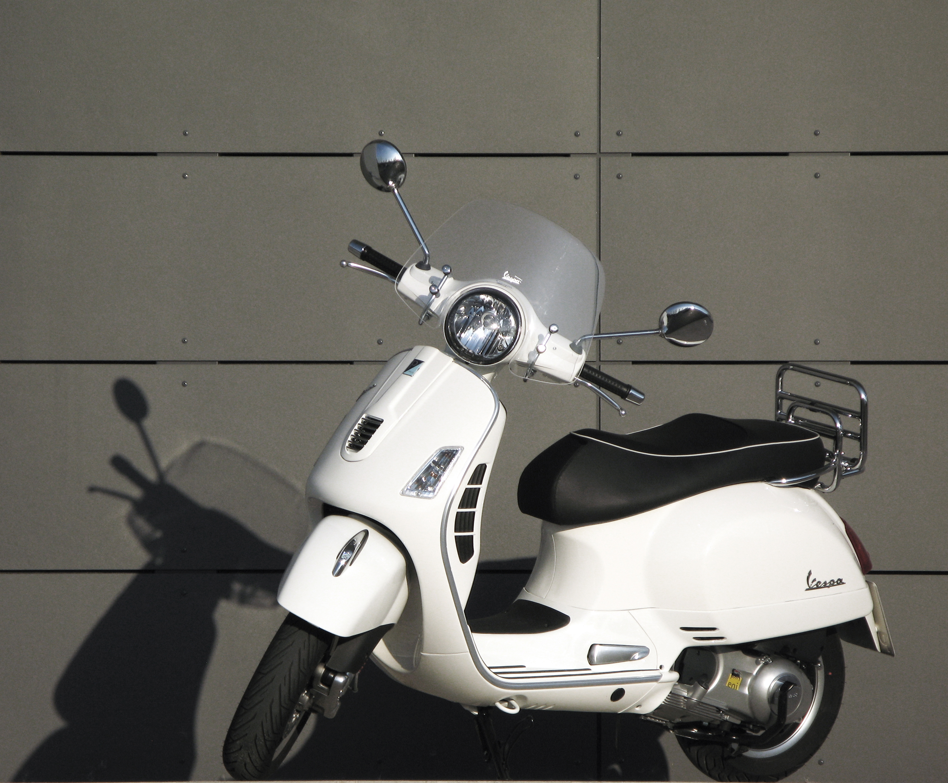 Vespa GTS 300